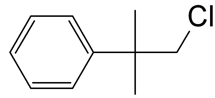 Neophyl chloride